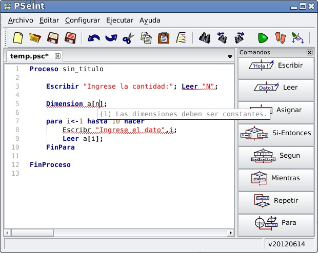 Ayuda Emergente